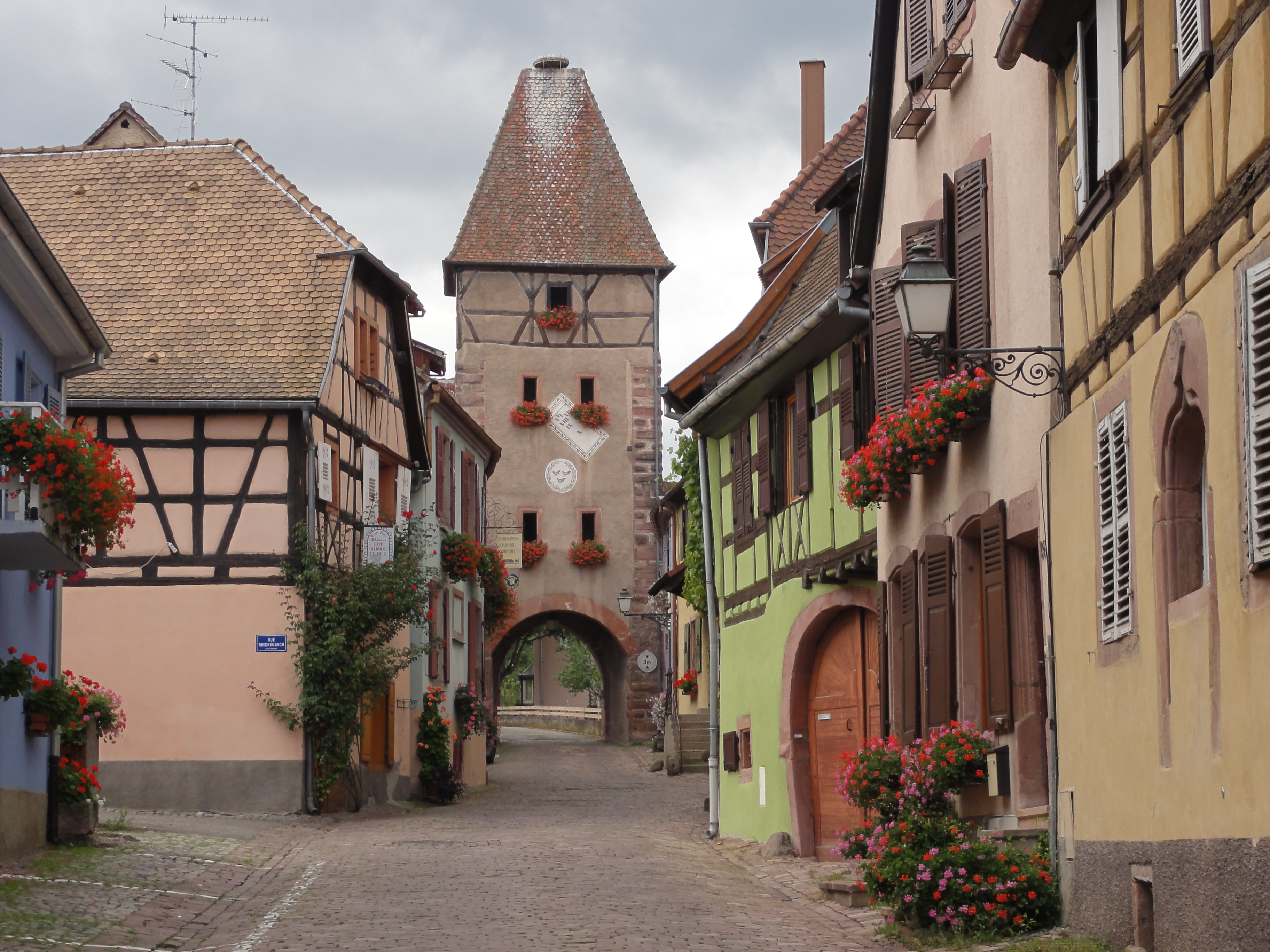 Alsace, Haut-Rhin, Ammerschwihr, Porte-Haute ou Obertor (XIVe). It is indexed in the Base Mérimée, a database of architectural heritage maintained by the French Ministry of Culture, under the references PA00085330 , PA00125230 and IA68000726 .